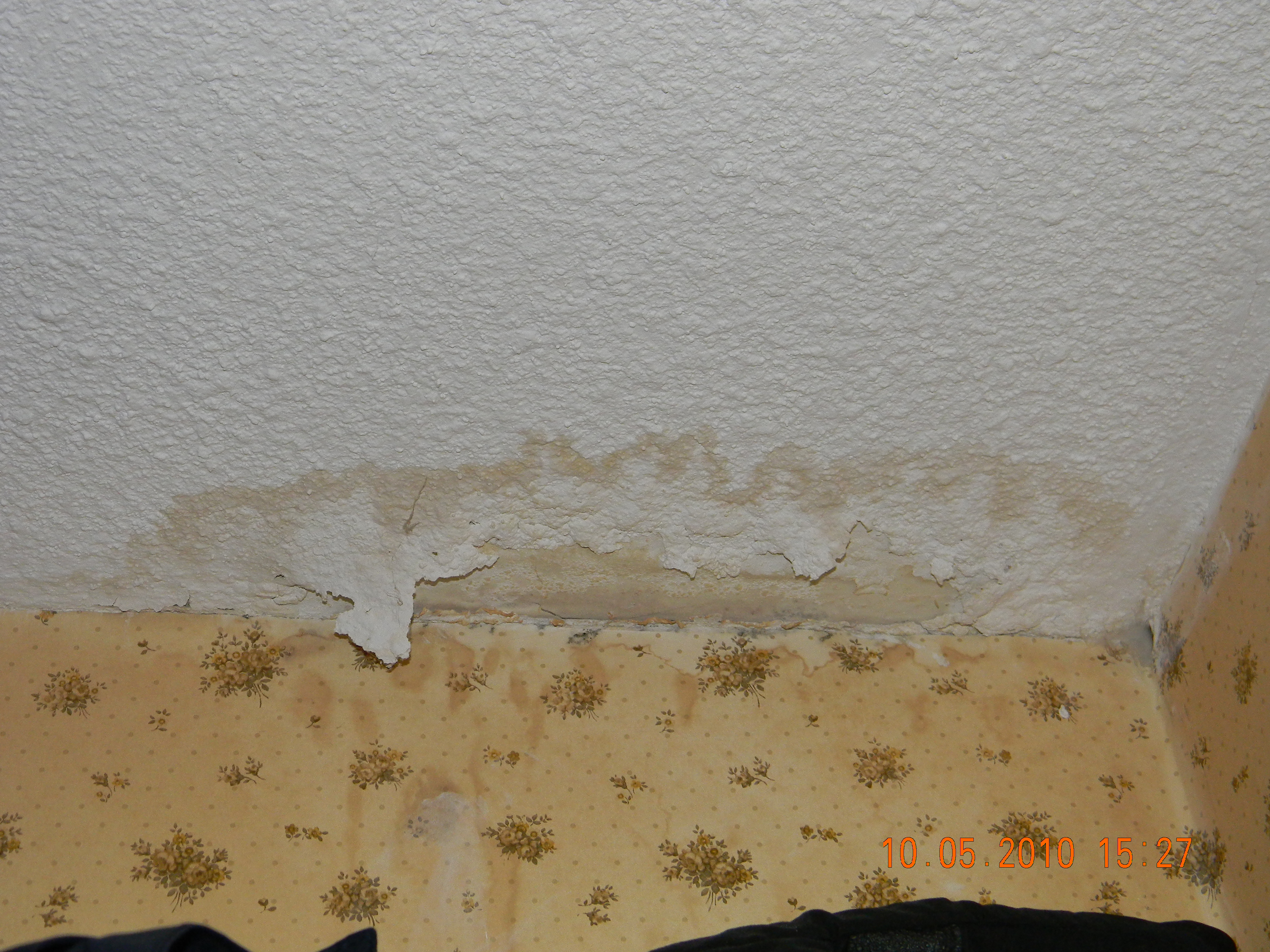 Reaction of drywall boards and finishes to a small water leak.